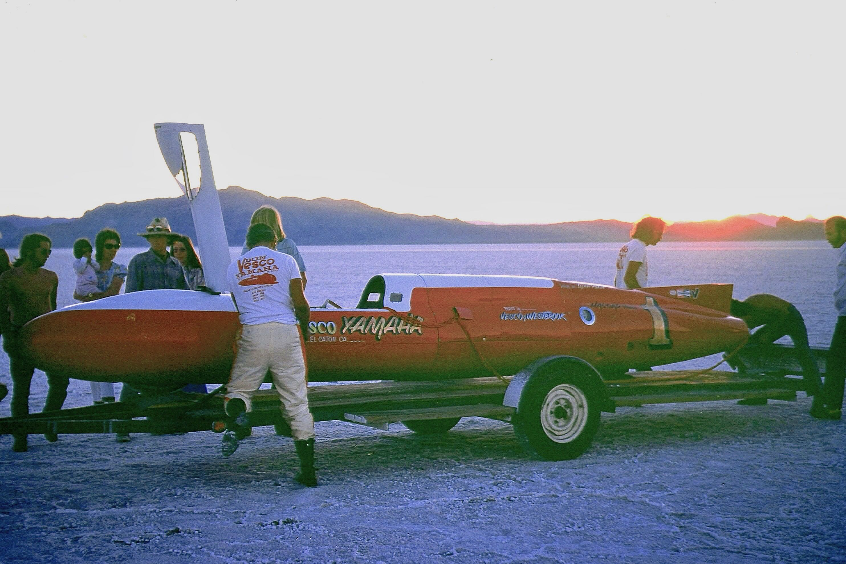 Don Vesco's Silver Bird streamliner circa 1974